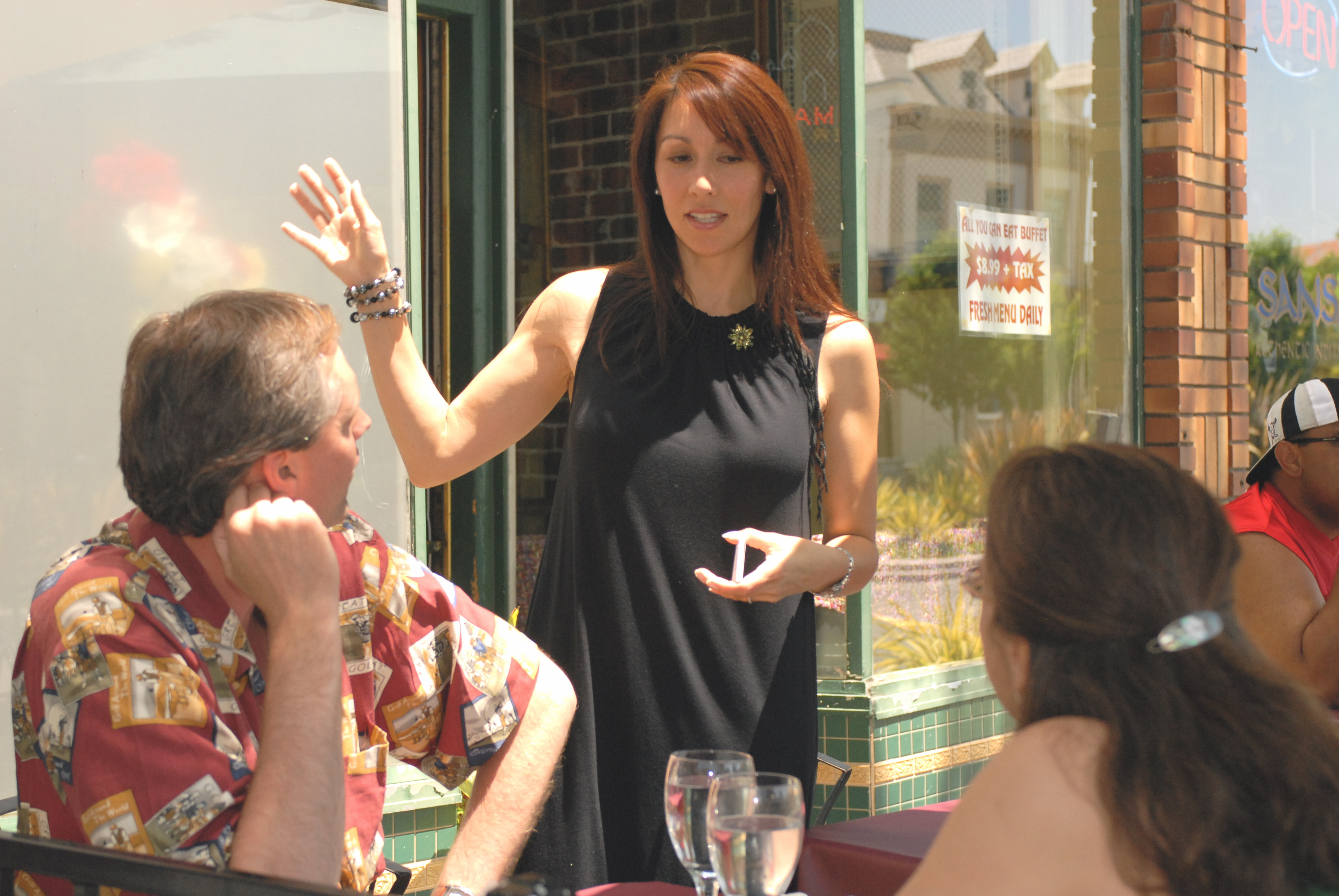 Tiffany Rene Estrella Attwood in Livermore, California doing a meet and greet off the street